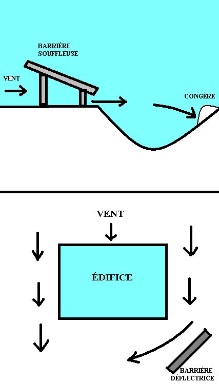 Two types of snow fence to control snowdritfs : top blowing fence where the acceleration of the airflow carries the snow away from the lower terrain, bottom deflection of the airflow by a barrier to clear the front of the building